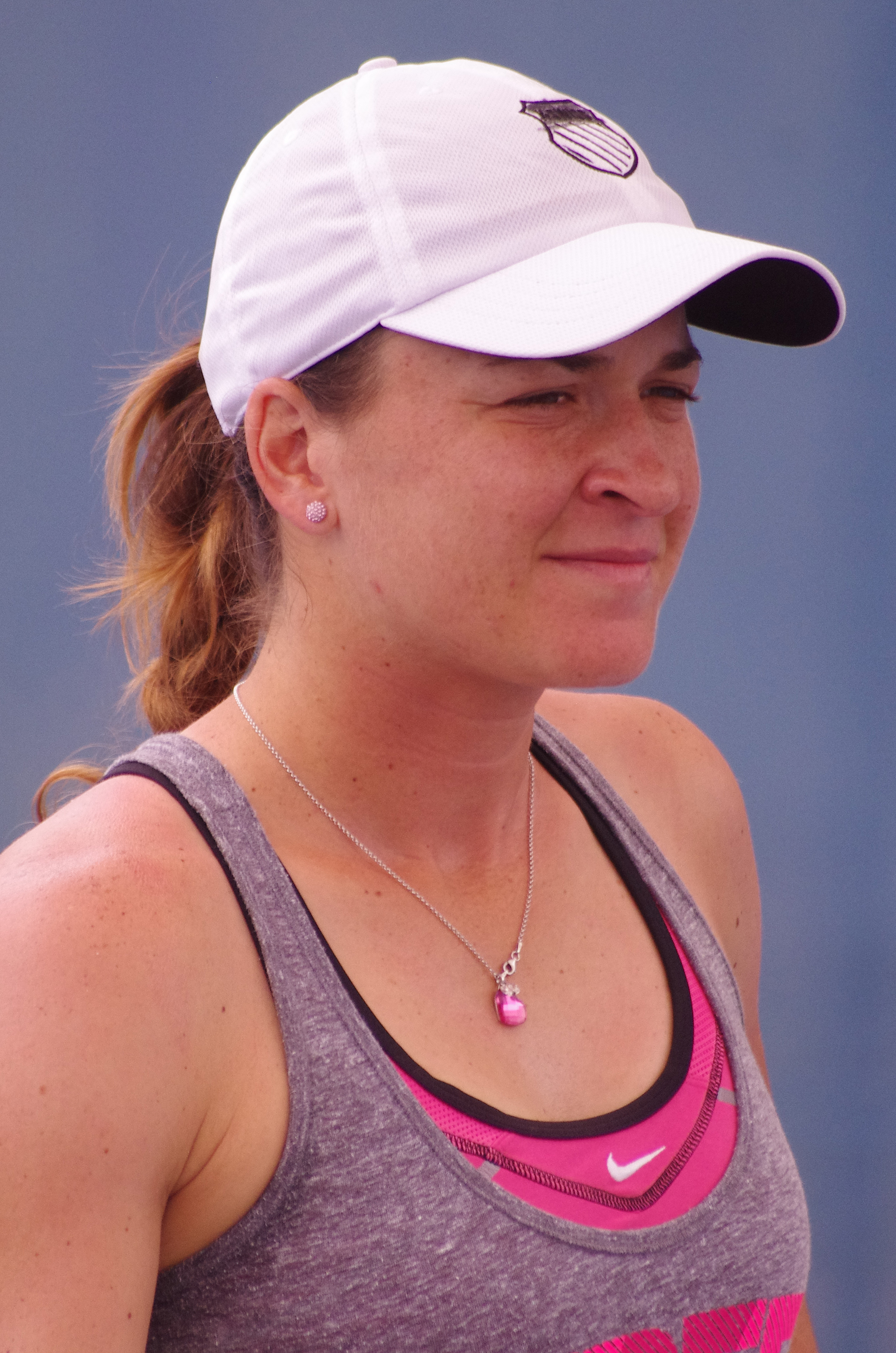 ALEXANDRA DULGHERU (1)